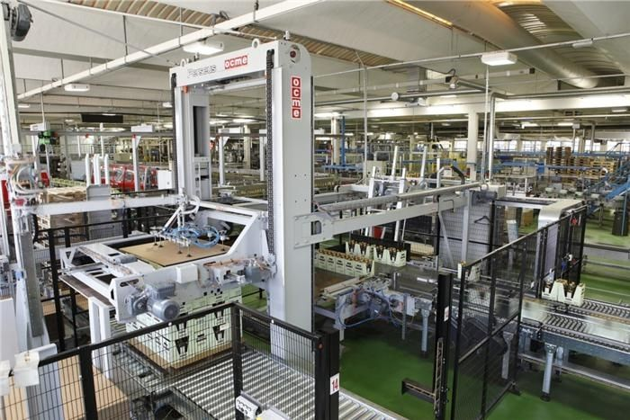 In-line Palletizer by OCME S.r.L